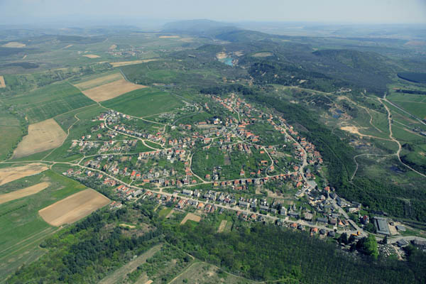 Rudabánya, Hungary, aerial photography